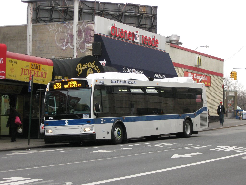 MTA Bus #4023 loads Q38 customers by Queens Center.